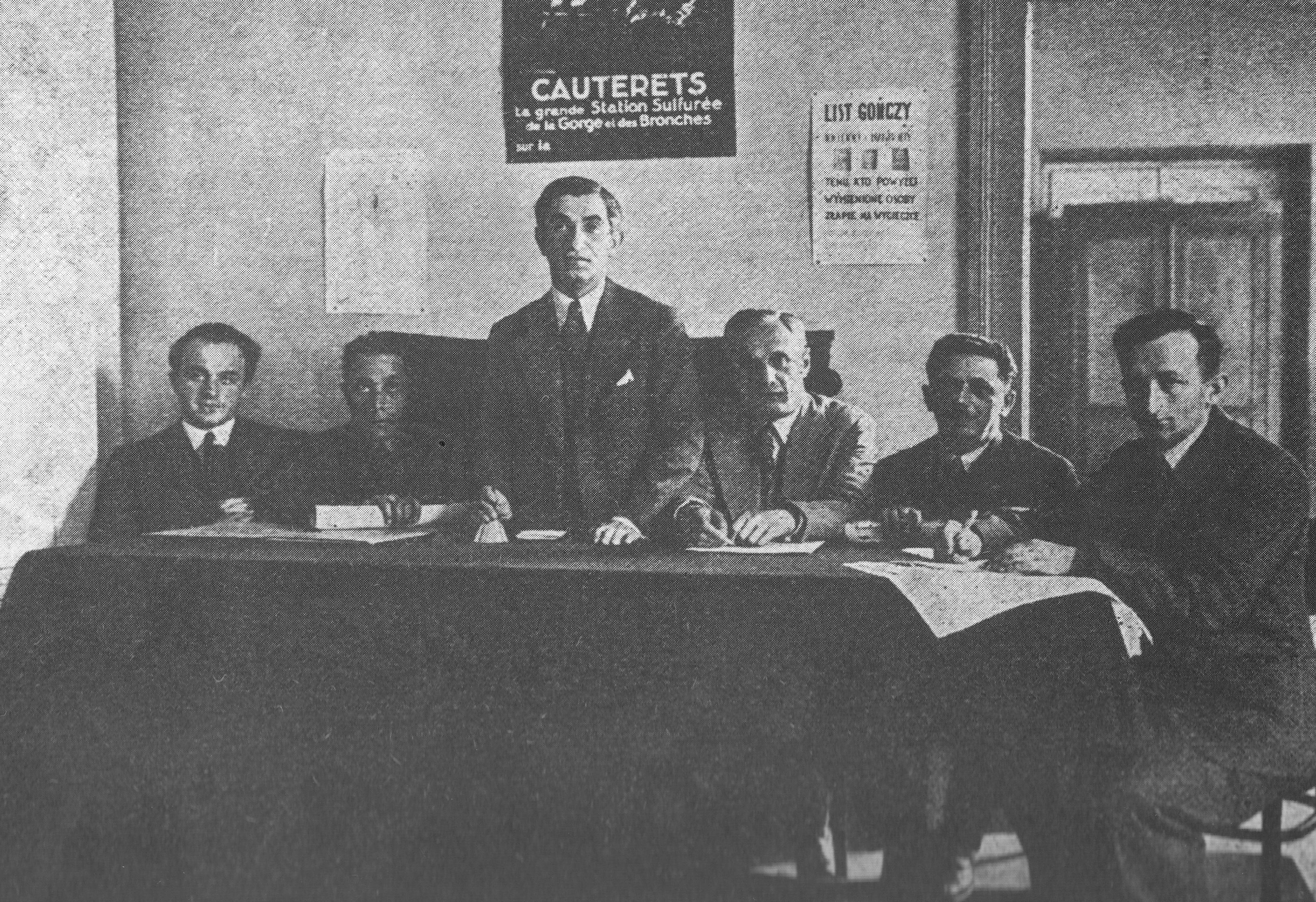 Presidium of the 4th Congress of Delegates of Branches of the Jewish Touring Society in Poland. Emanuel Ringelblum first from the left.